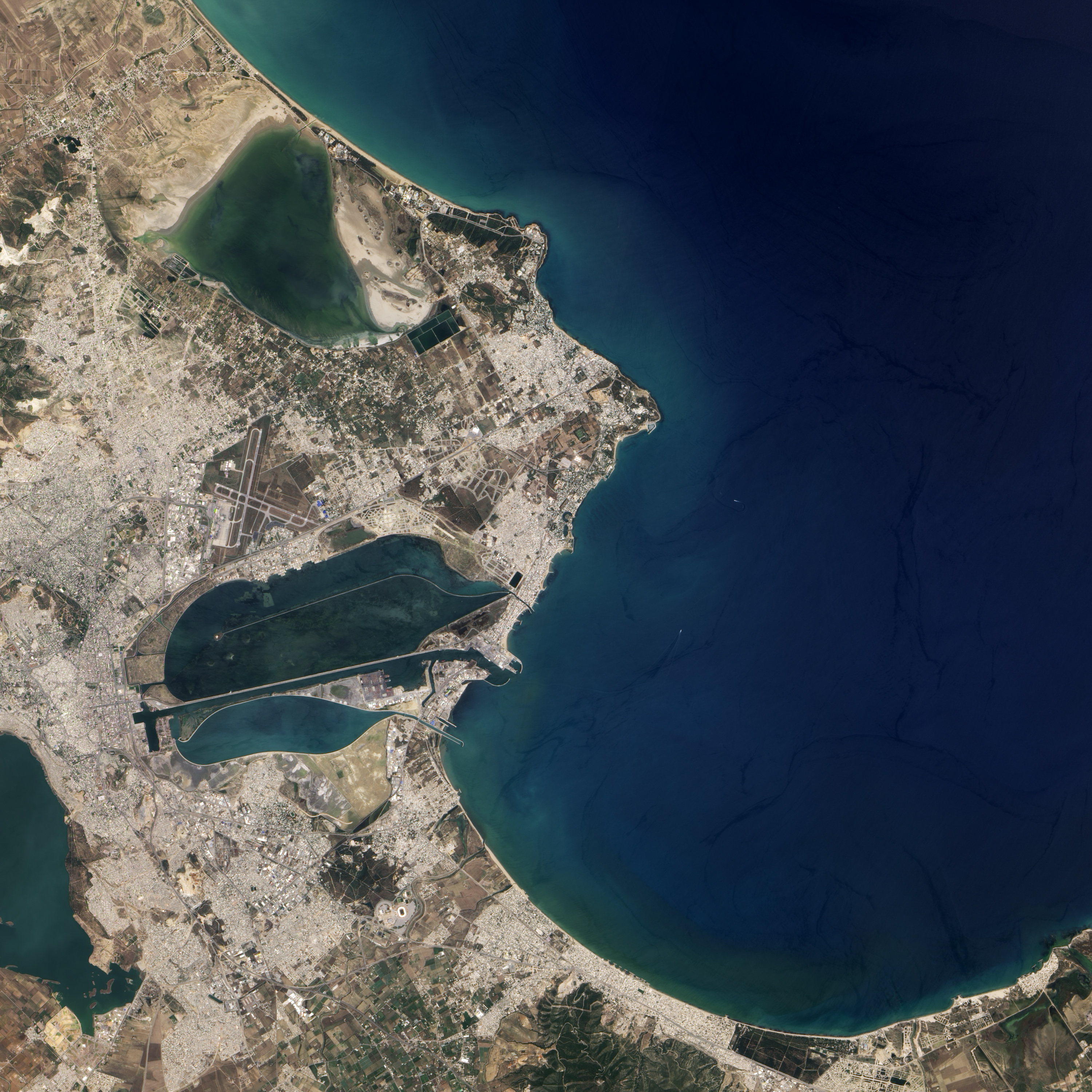 Natural-colour image of Carthage on June 24, 2004. In the east, Carthage narrows to a point that stretches into the Gulf of Tunis. From that point, skinny strips of land extend toward the north-west and south-west, both strips enclosing water bodies. North of Carthage is Sebkhet Arina, a shallow evaporative lake. Rocky outcrops connected by sand separate this shallow lake from the Gulf of Tunis. South of Carthage is Lake Tunis, a water body actively modified and maintained by humans over thousands of years.